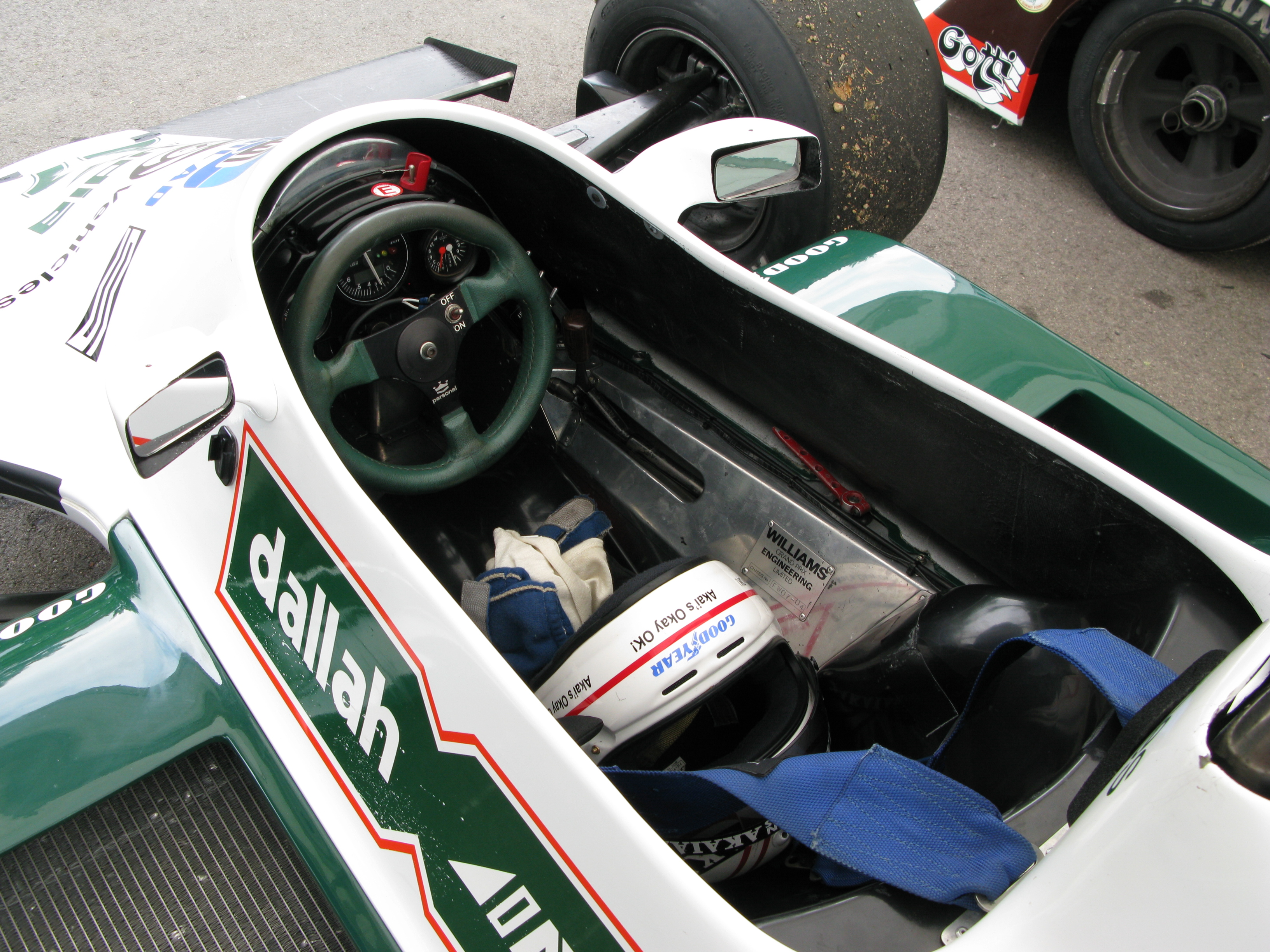 The cockpit of a Williams FW07 Formula One car (chassis FW07/04), pictured during the Sommet des Légends race meeing, Circuit Mont-Tremblant, Quebec, Canada. July 2009.